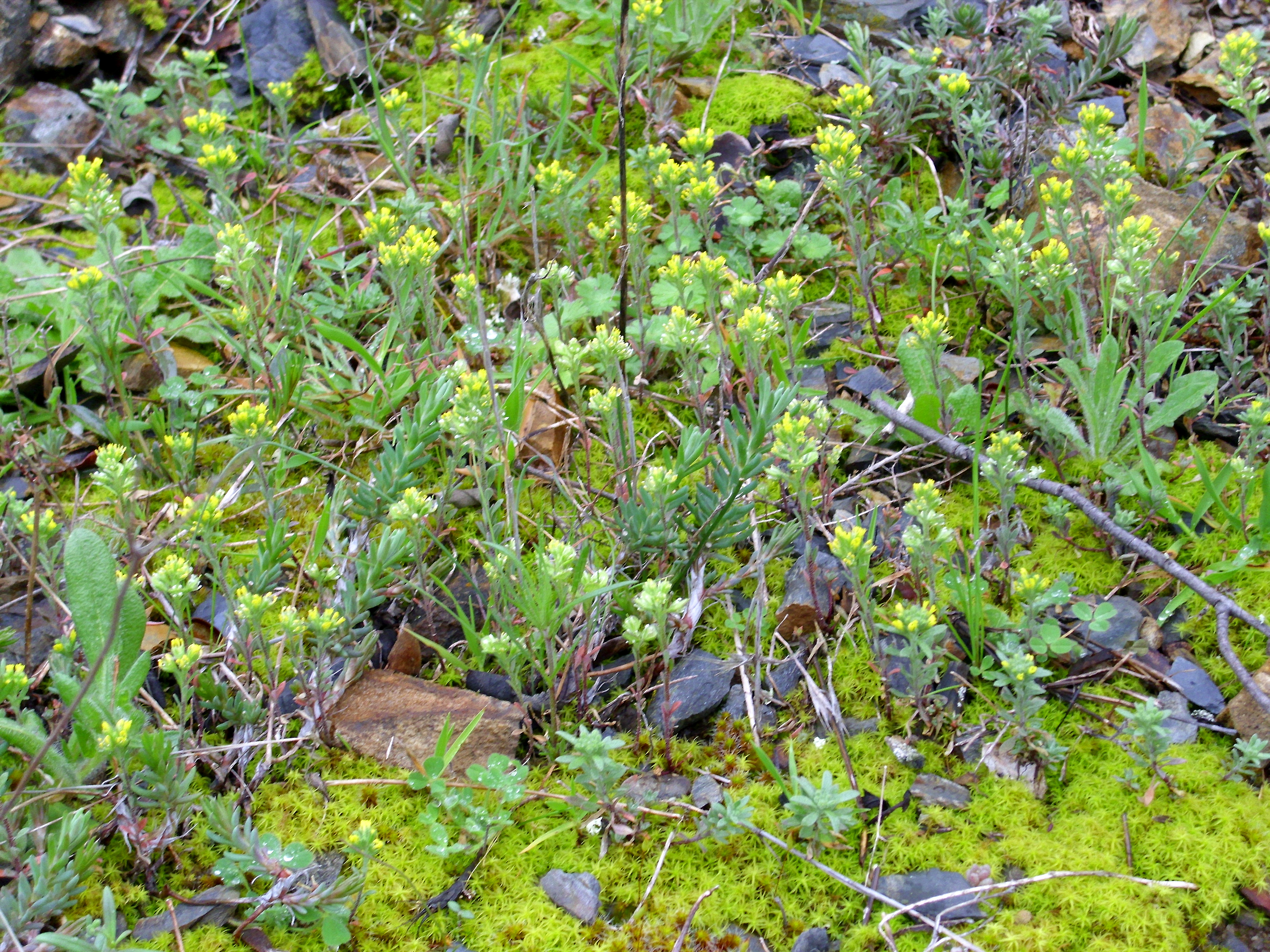 Alyssum granatense Habitat, Sierra Madrona, Spain